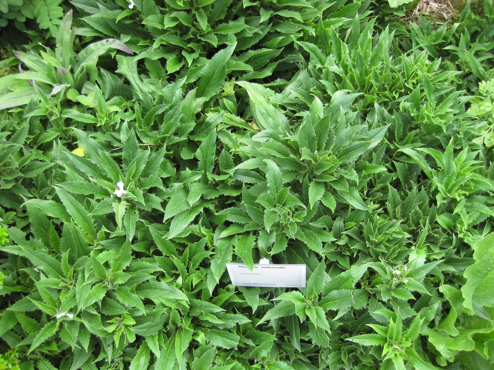 Photographed at the Royal Botanic Gardens Sydney (Australia) in January